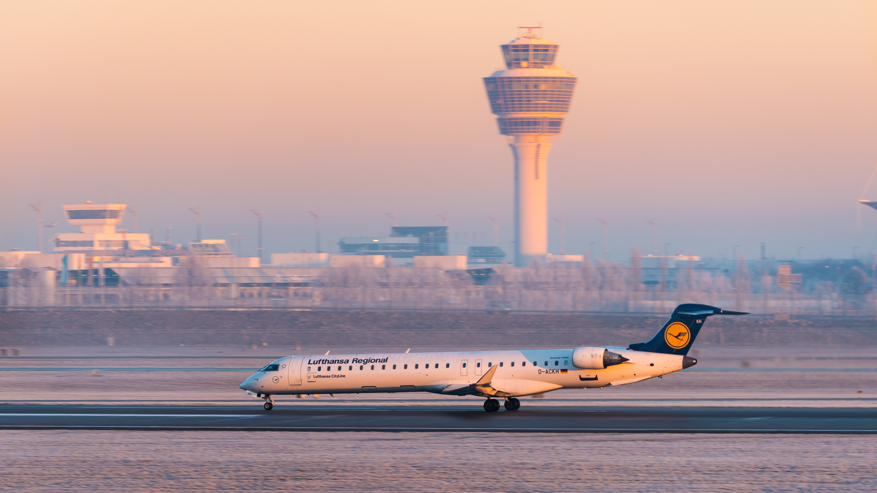 Lufthansa Regional (Lufthansa CityLine) Bombardier CRJ-900LR (CL-600-2D24) (reg. D-ACKH, msn 15085) at Munich Airport (IATA: MUC; ICAO: EDDM).